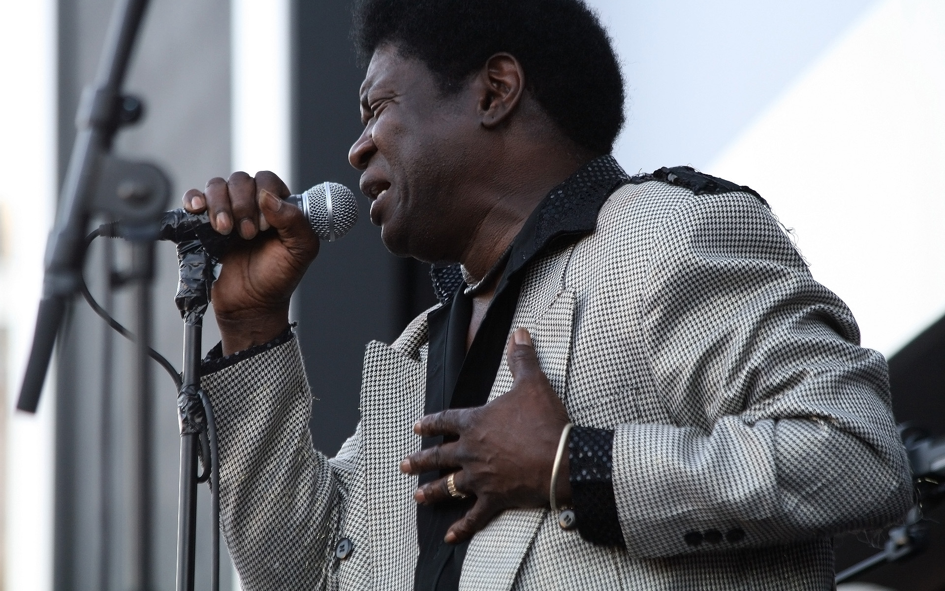 Charles Bradley & The Menahan Street Band, Jazz Fest Wien 2011 (in front of the Rathaus in Vienna).